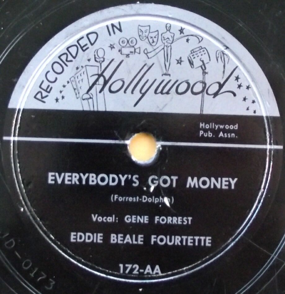 Picture of Recorded In Hollywood Records record label. Photograph of record from author's collection.